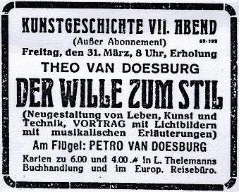 Advertisement of Theo van Doesburg's lecture ‘Der Wille zum Stil’ in Weimar.